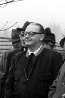 Title: Hunsrück, Diplomatenjagd Extra information: Bildmitte: Heinrich von Brentano People in the image: Brentano, Heinrich von Dr.: Außenminister, CDU, Bundesrepublik Deutschland (GND 118673866) Factual corrections and alternative descriptions are encouraged separately from the original description. Additionally errors can be reported at this page to inform the Bundesarchiv. Original historic description: Januar 1956 Diplomaten-Jagd im Hunsrück auf Einladung von Außenminister Heinrich von Brentano